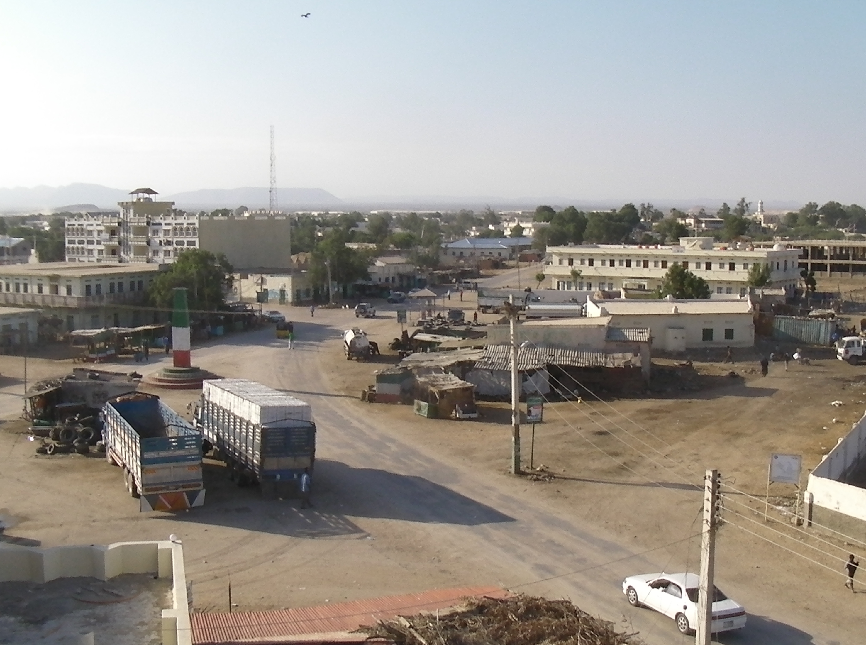 View to the west or southwest from the top floor of the Esco Hotel in Berbera, Somaliland